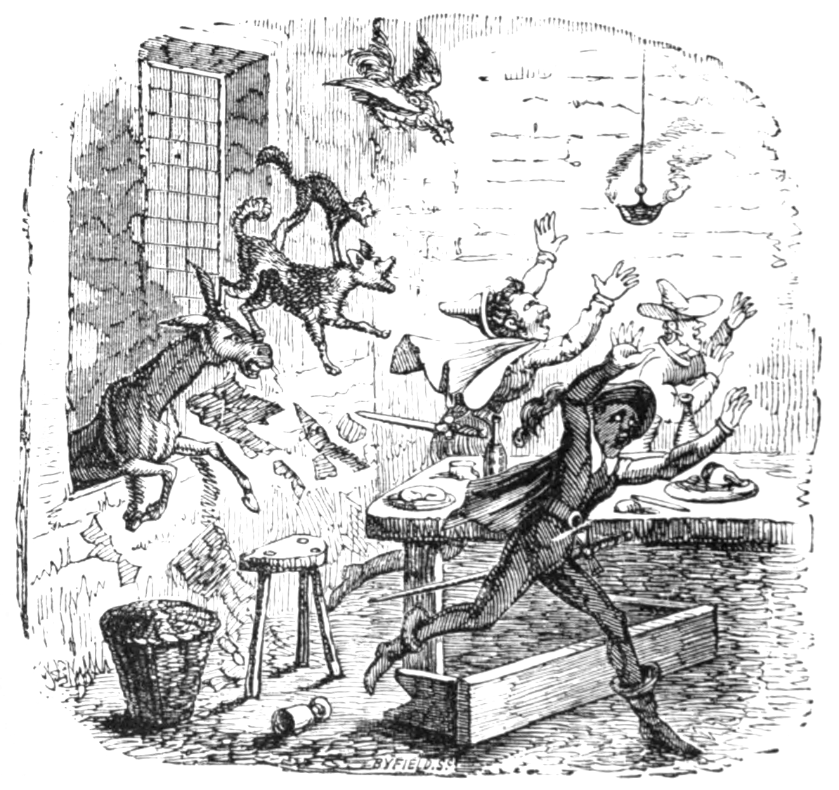 Illustration from English Caricaturists and Graphic Humourists of the Nineteenth Century, by William Rodgers Richardson (writing as Graham Everitt) Engraving by George Cruikshank Caption: "The Waits of Bremen and the Borders" Originally from "German Popular Stories"